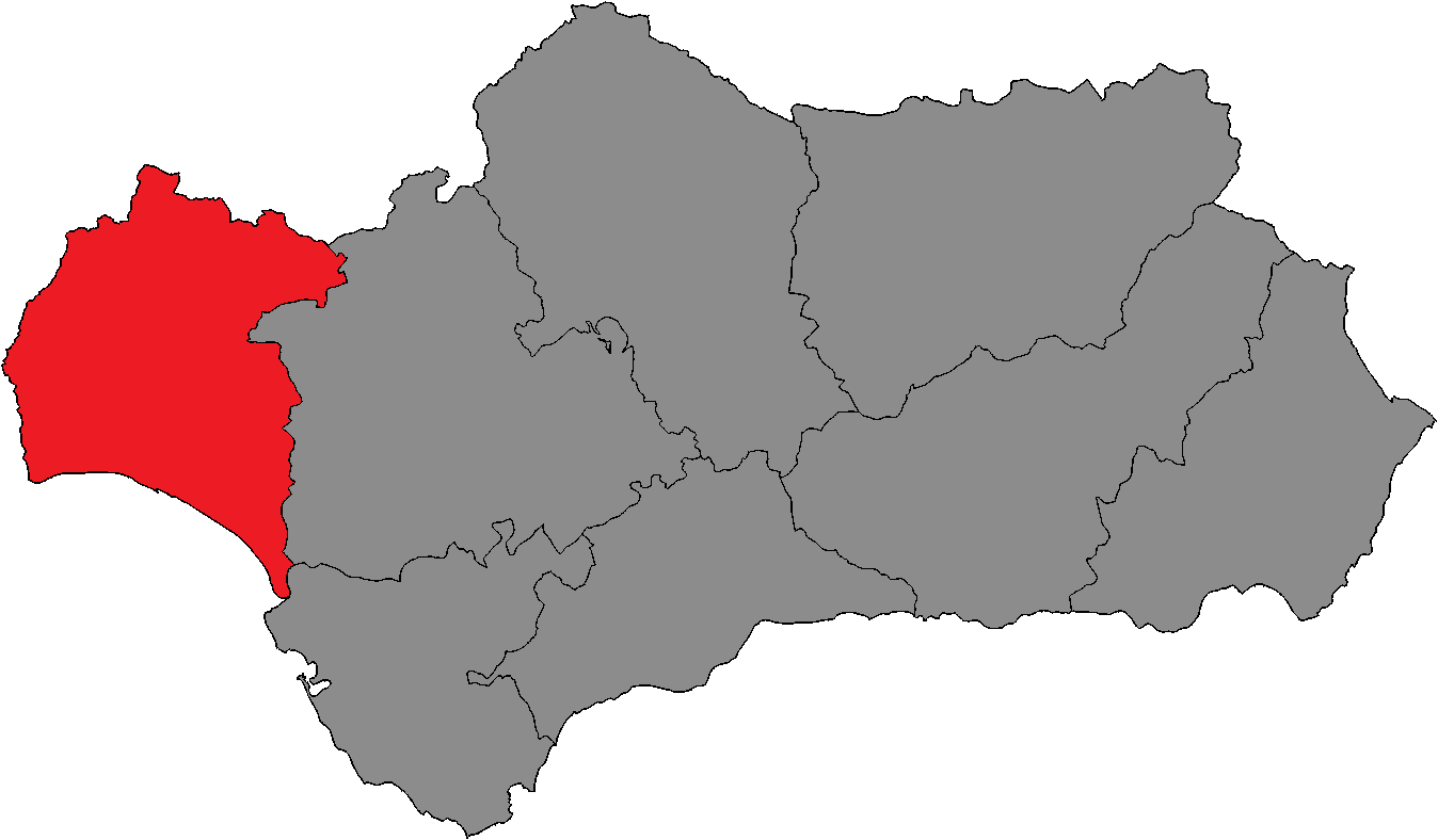 Andalusian Parliament district of Huelva.